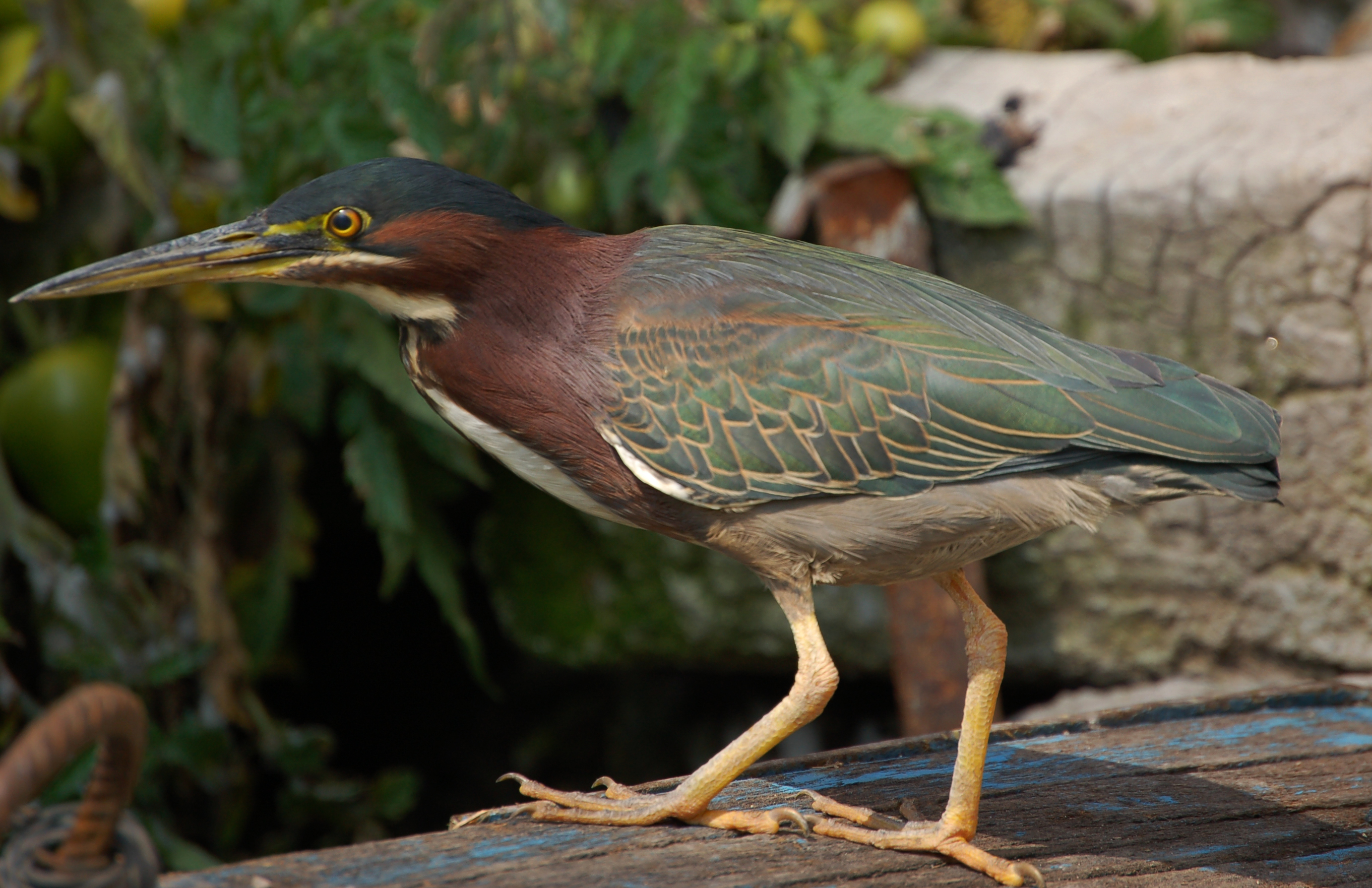 Green heron